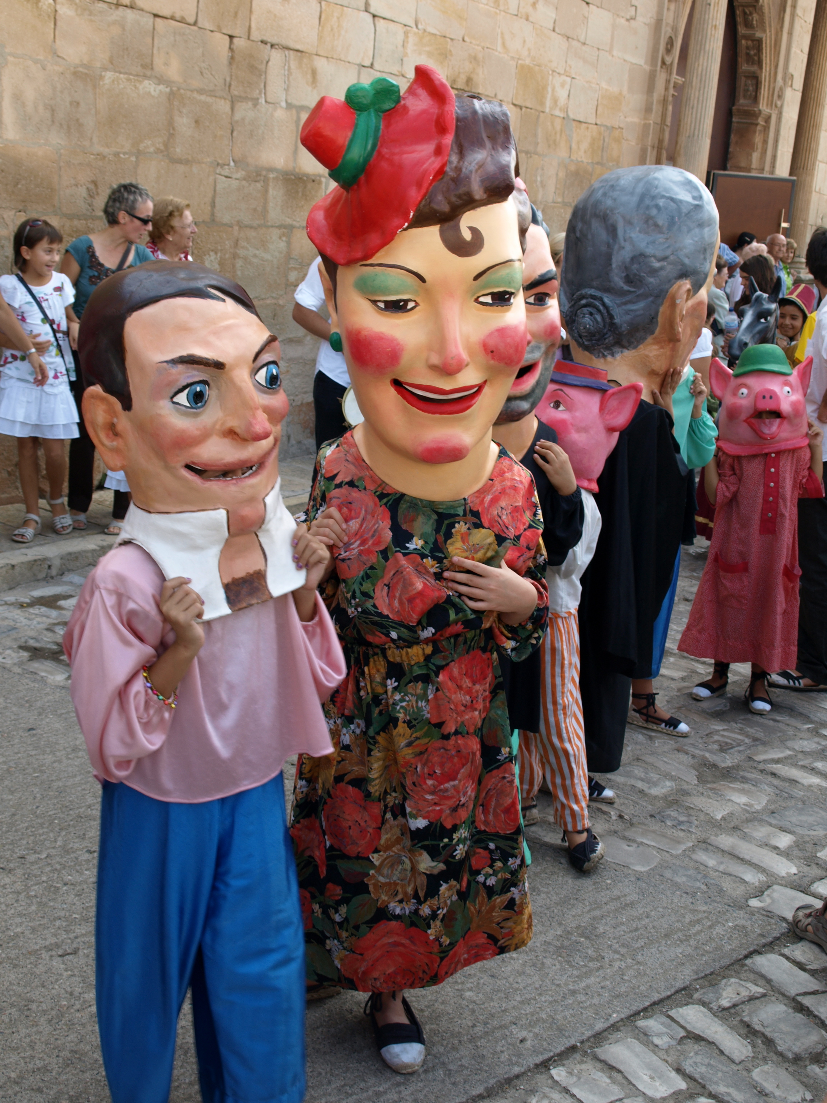 Capgrossos "Big heads" at Bellpuig Place Lloc/Place: Festes Majors Bellpuig